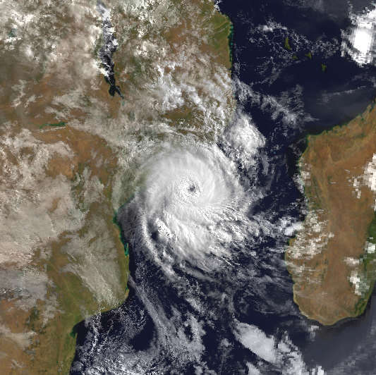 Cyclone Hudah reforming in the Mozambique Channel on April 7, 2000.